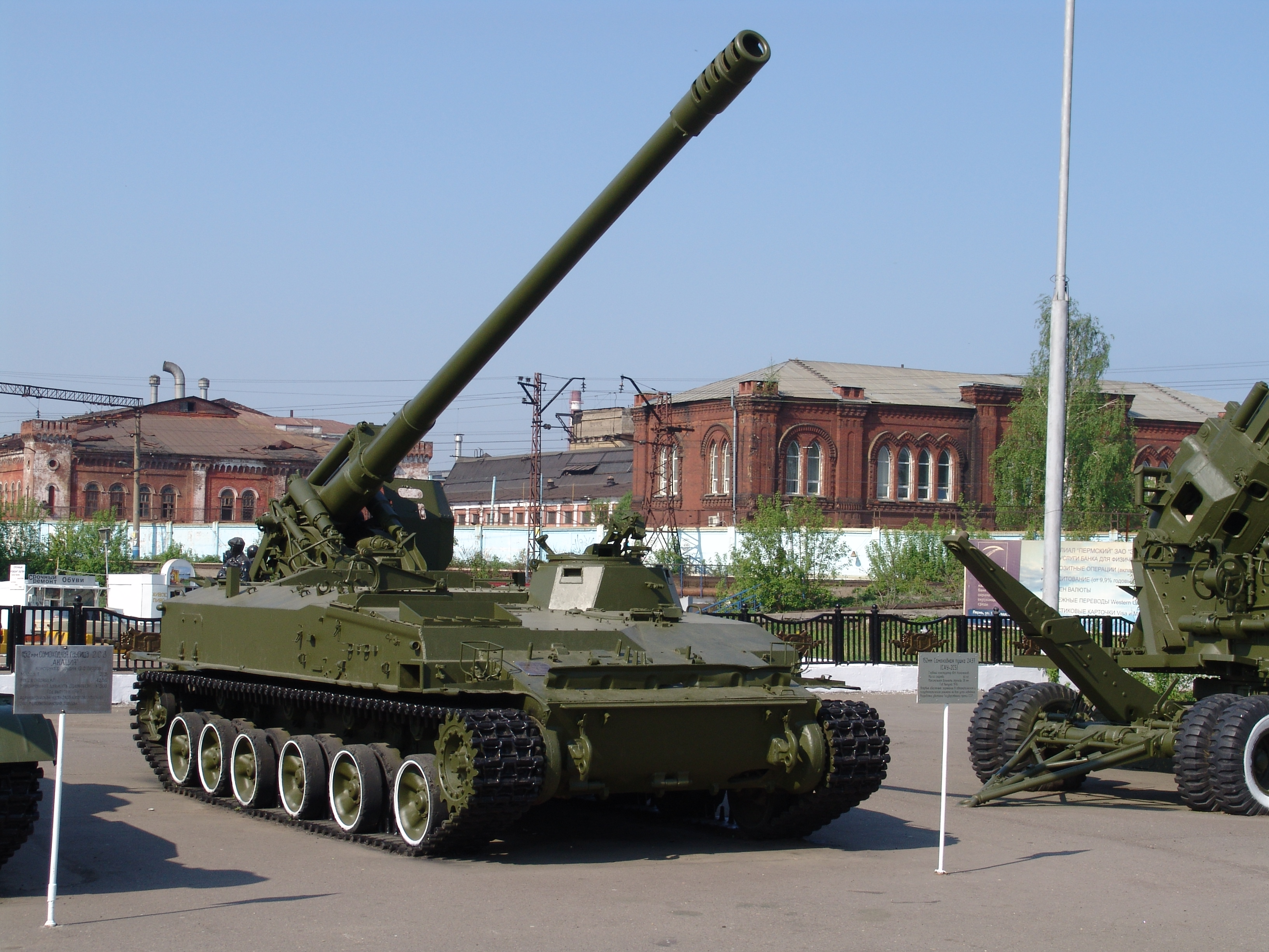 Self-propelled gun 2S5 "Giatsint-S" with 152-mm gun 2A37.